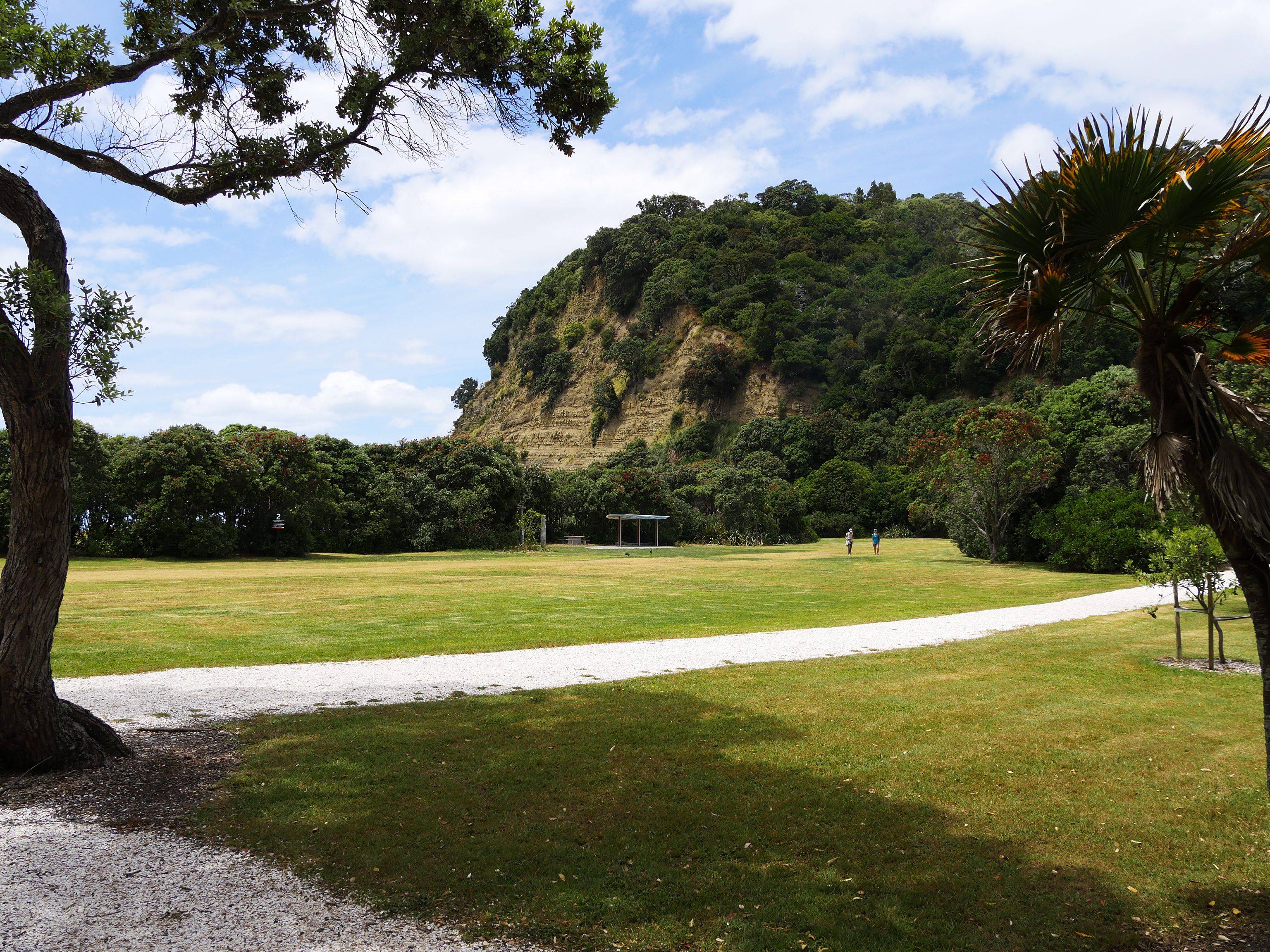 Wenderholm Regional Park, cliffs of Maungatauhoro, Auckland Council, North Island, New Zealand (opened Dezember 1965)